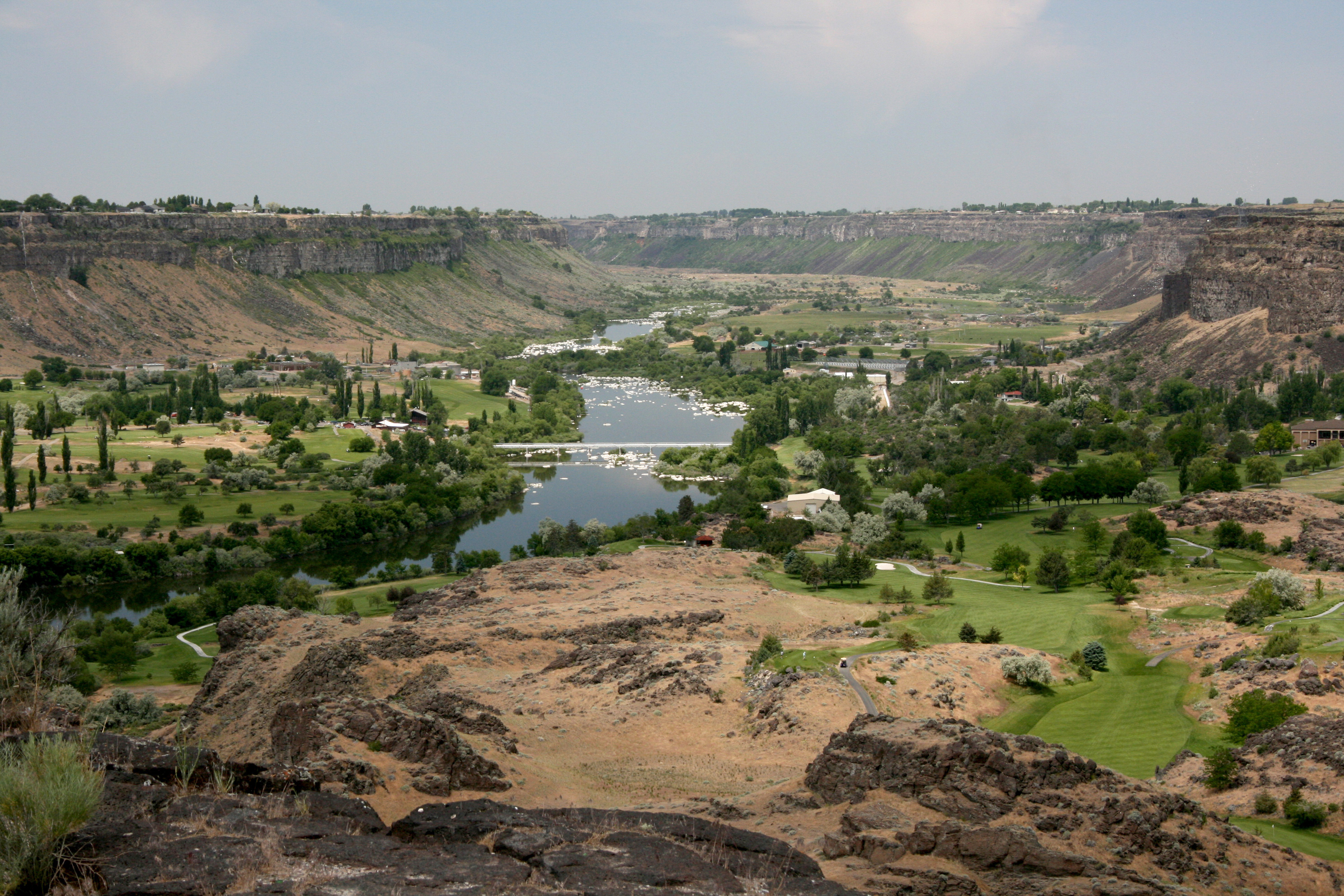 Photographer: myself, Gh5046 Taken 2007/06/02 at the Snake River Canyon at Twin Falls, Idaho. The brightness/contrast of the photo has been adjusted, otherwise it is in its original state.